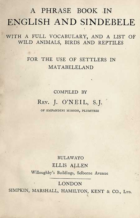 Title page of one of the earliest phrase books of Sindebele to be published in Rhodesia: J. O'Neil's "Phrase Book in English and Sindebele", 1910: Ellis Allen, Bulawayo, Rhodesia.